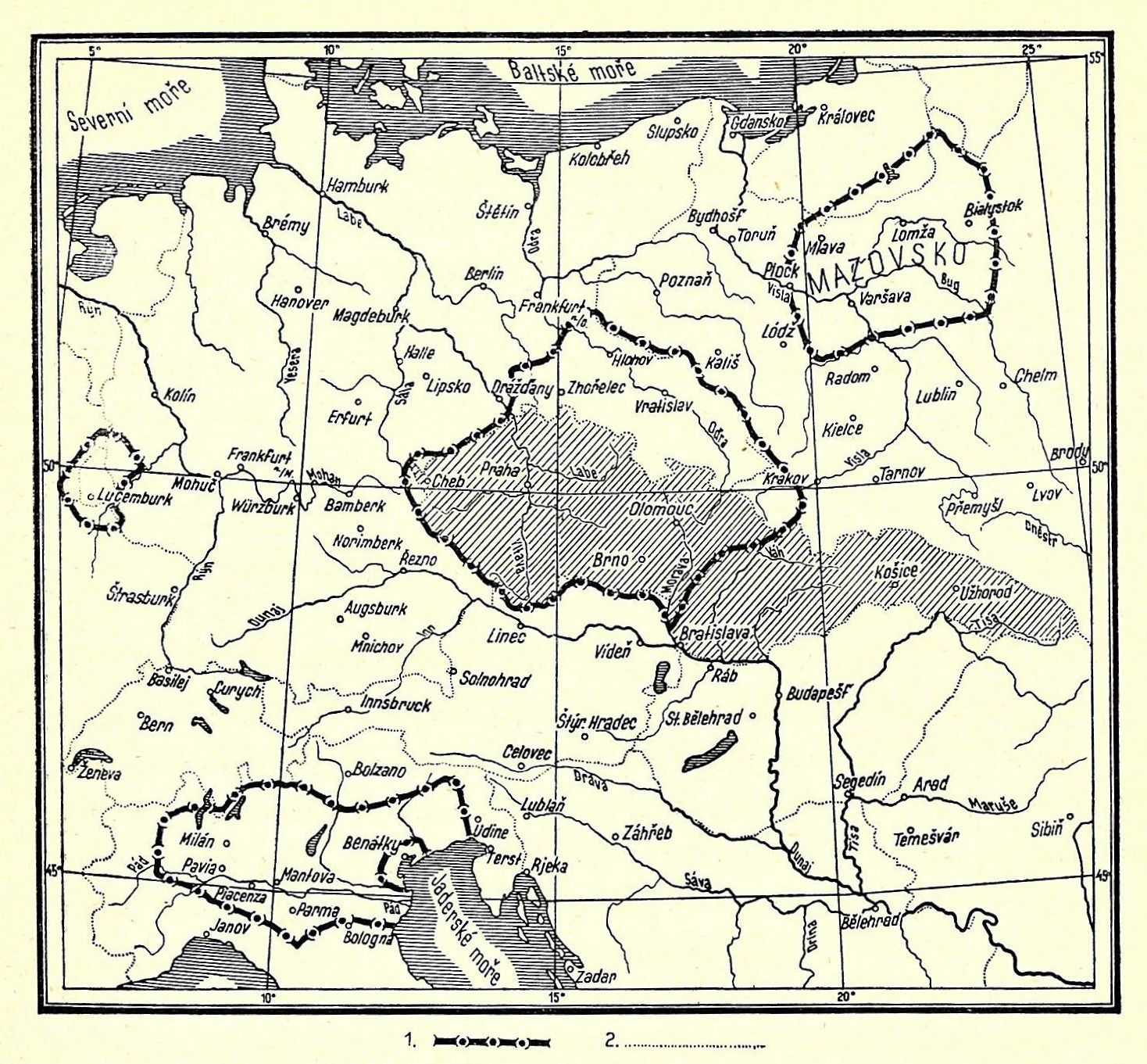 Map showing territory ruled by the Bohemian kings during the reign of John of Bohemia - first half of the 14th century. (1. borders of the Czech lands and lands attached, 2. existing borders of states in 1937.)